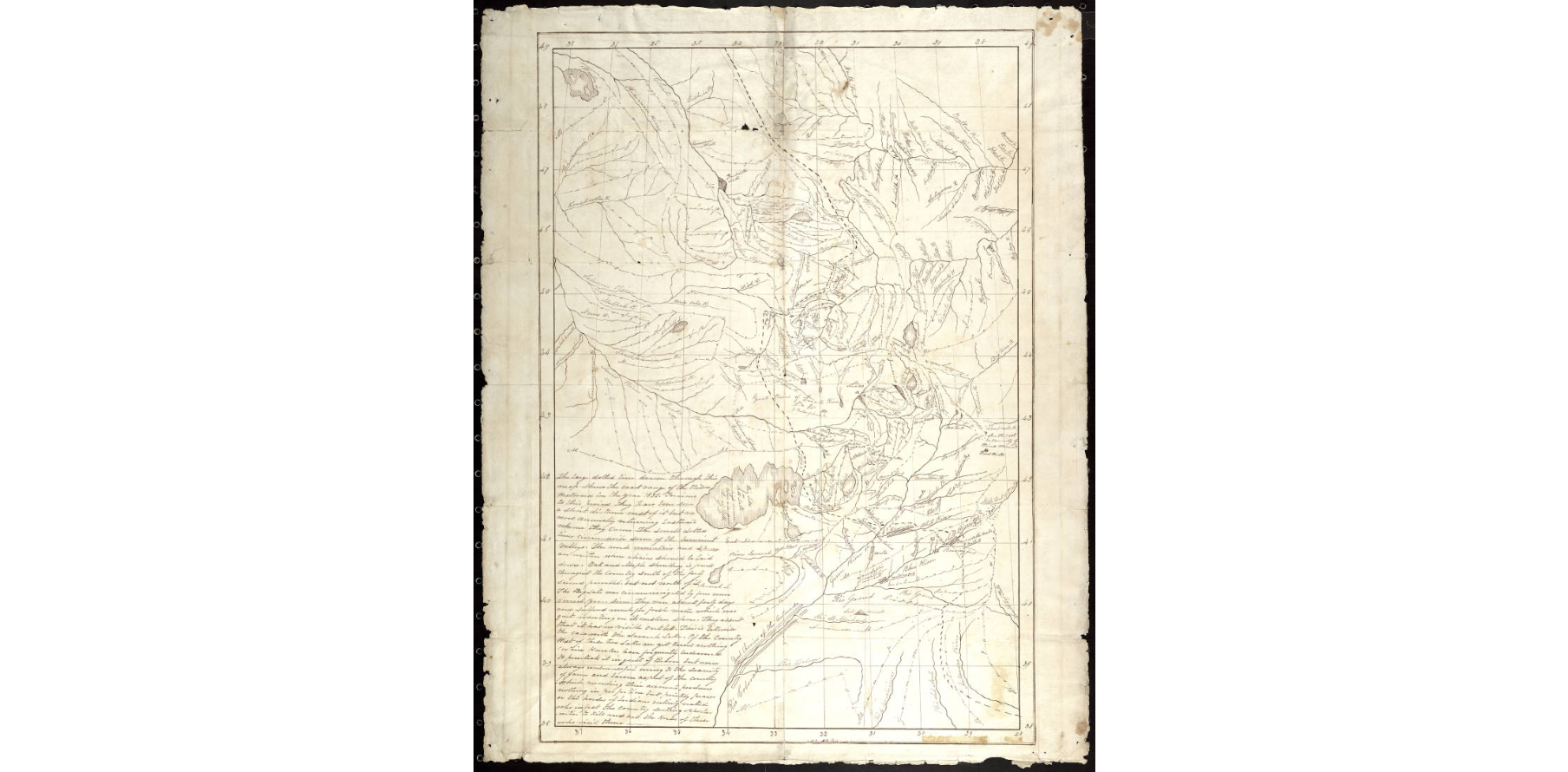 A map of Northwest fur country by Warreen Angus Ferris in 1836. Edited by Paul C. Phillips for publication in Ferris's Life in the Rocky Mountains (1940).